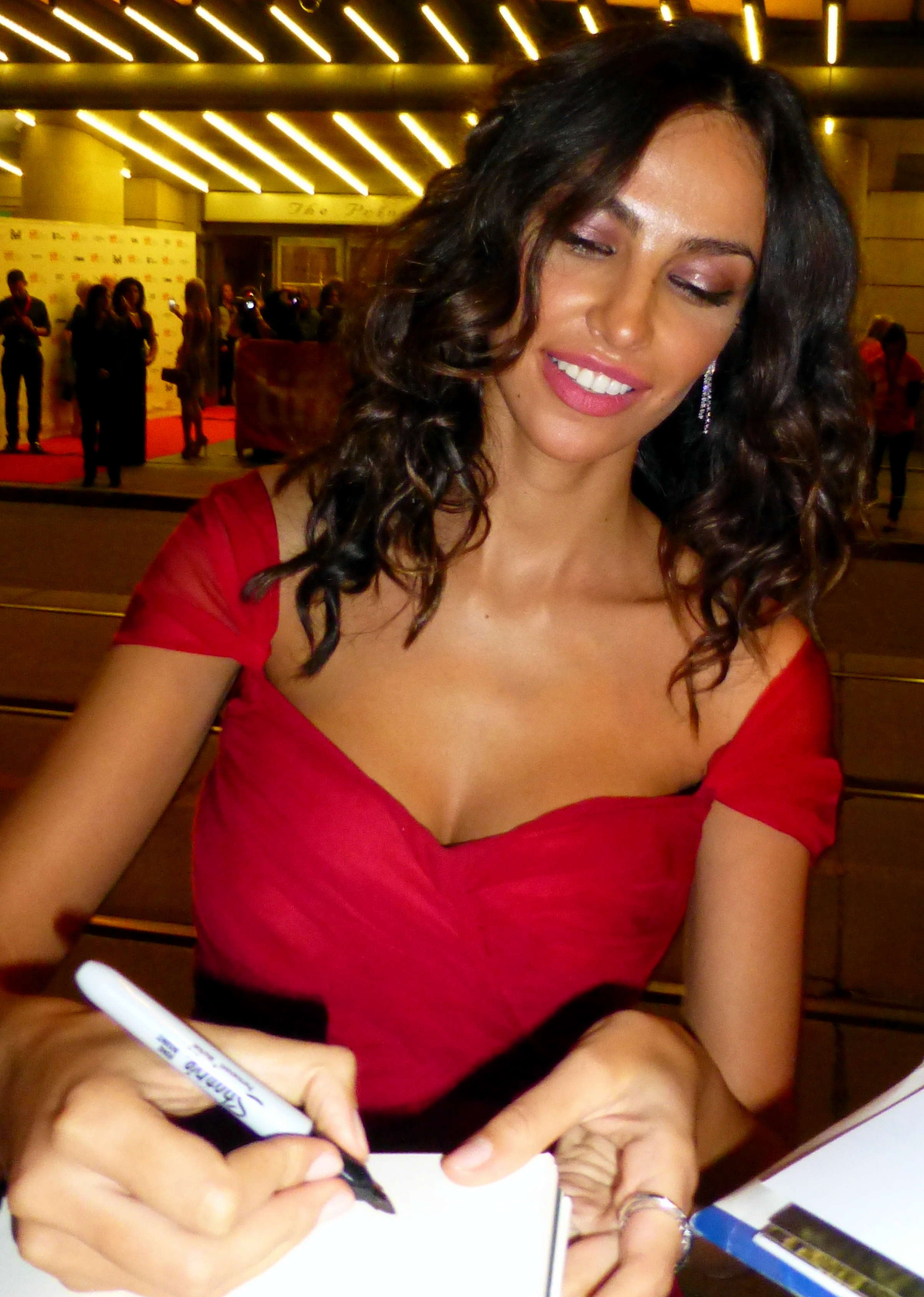 Madalina Diana Ghenea at the premiere of Dom Hemingway, Toronto Film Festival 2013